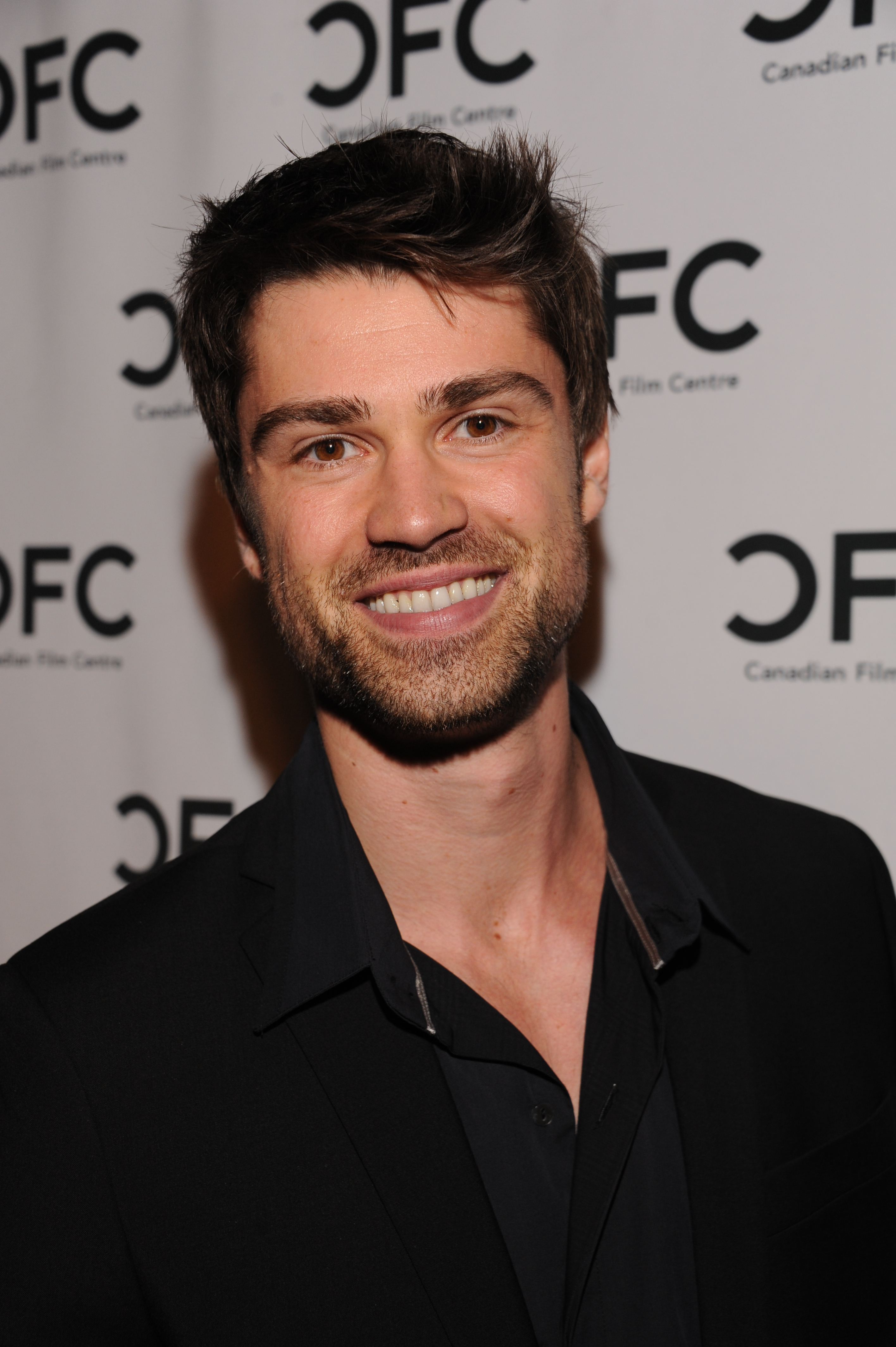 Corey Sevier at a Canadian Film Centre & Variety-hosted reception for the Telefilm Canada Features Comedy Lab.